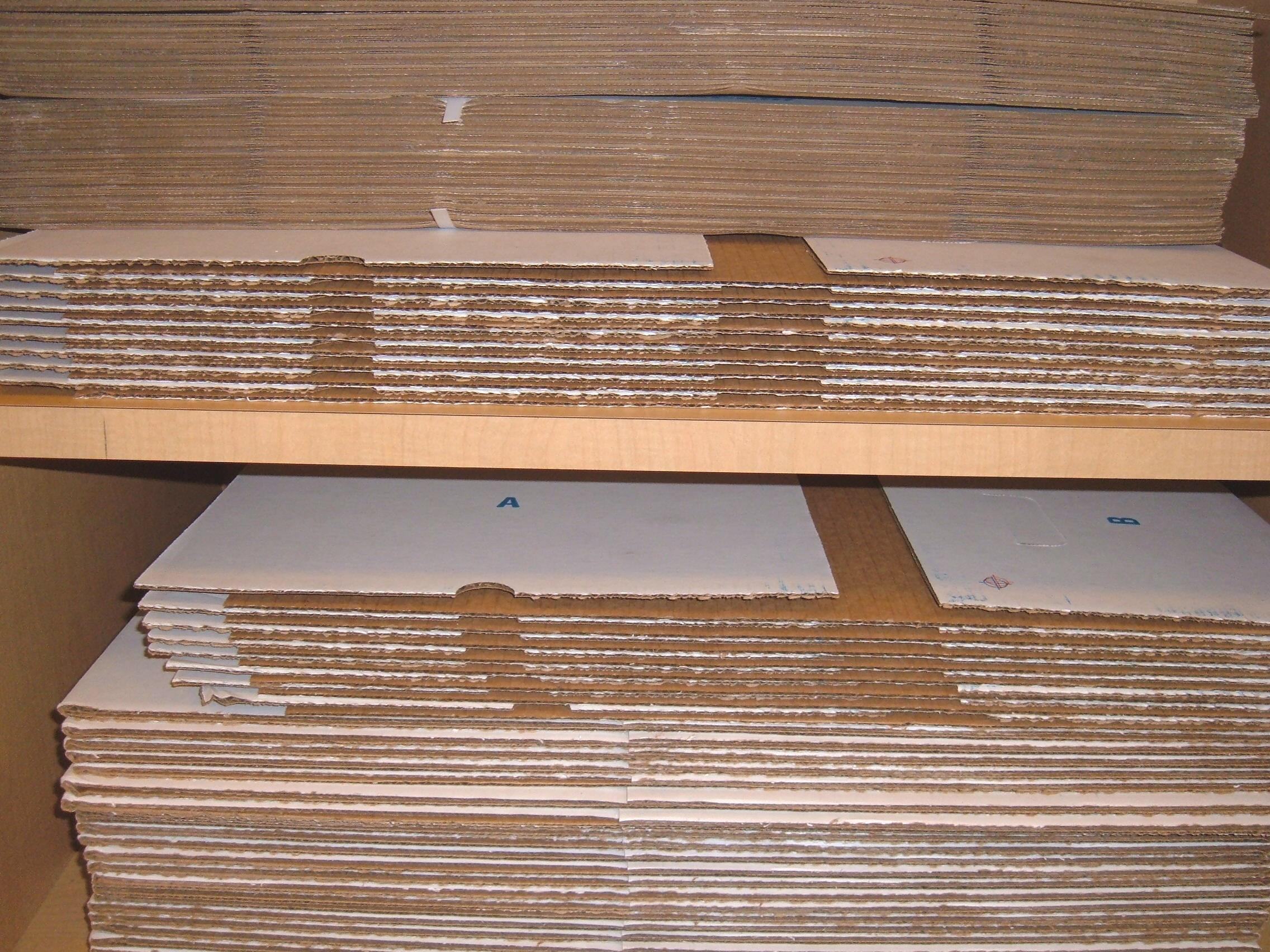 Unassembled cardboard banker's boxes